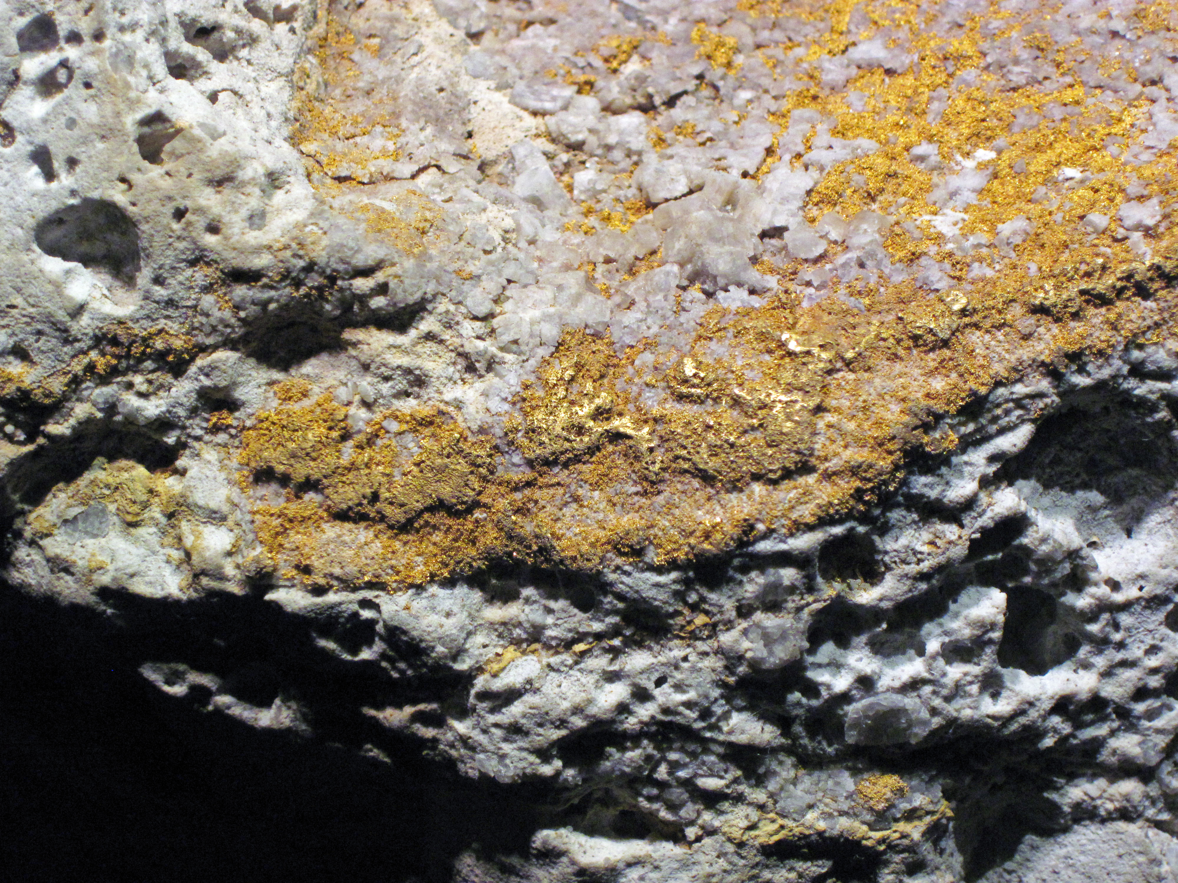 Auriferous volcanic breccia from Colorado, USA. (public display, Denver Museum of Nature & Science, Denver, Colorado) This fantastically gold-rich rock comes from Colorado's Little Annie Mine in the San Juan Mountains. The 114 pound boulder has an estimated 316 troy ounces of native gold. The lithology hosting the gold is a porous volcanic breccia of Tertiary age. Locality: loose boulder along Little Annie Mine, just below the Little Annie Mine, Summitville Mining District, San Juan Mountains, Colorado, USA